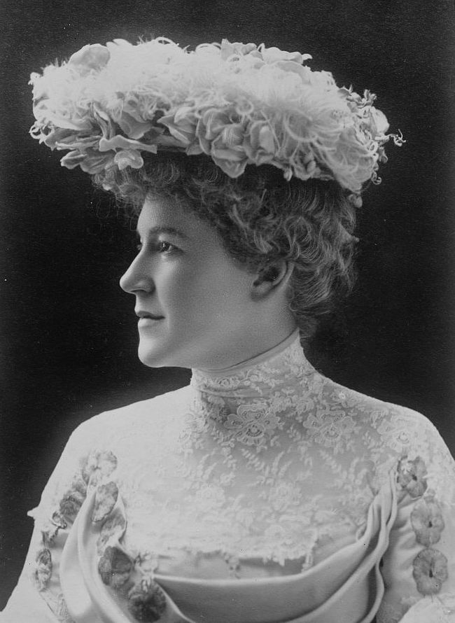 Ella Wheeler Wilcox circa 1919